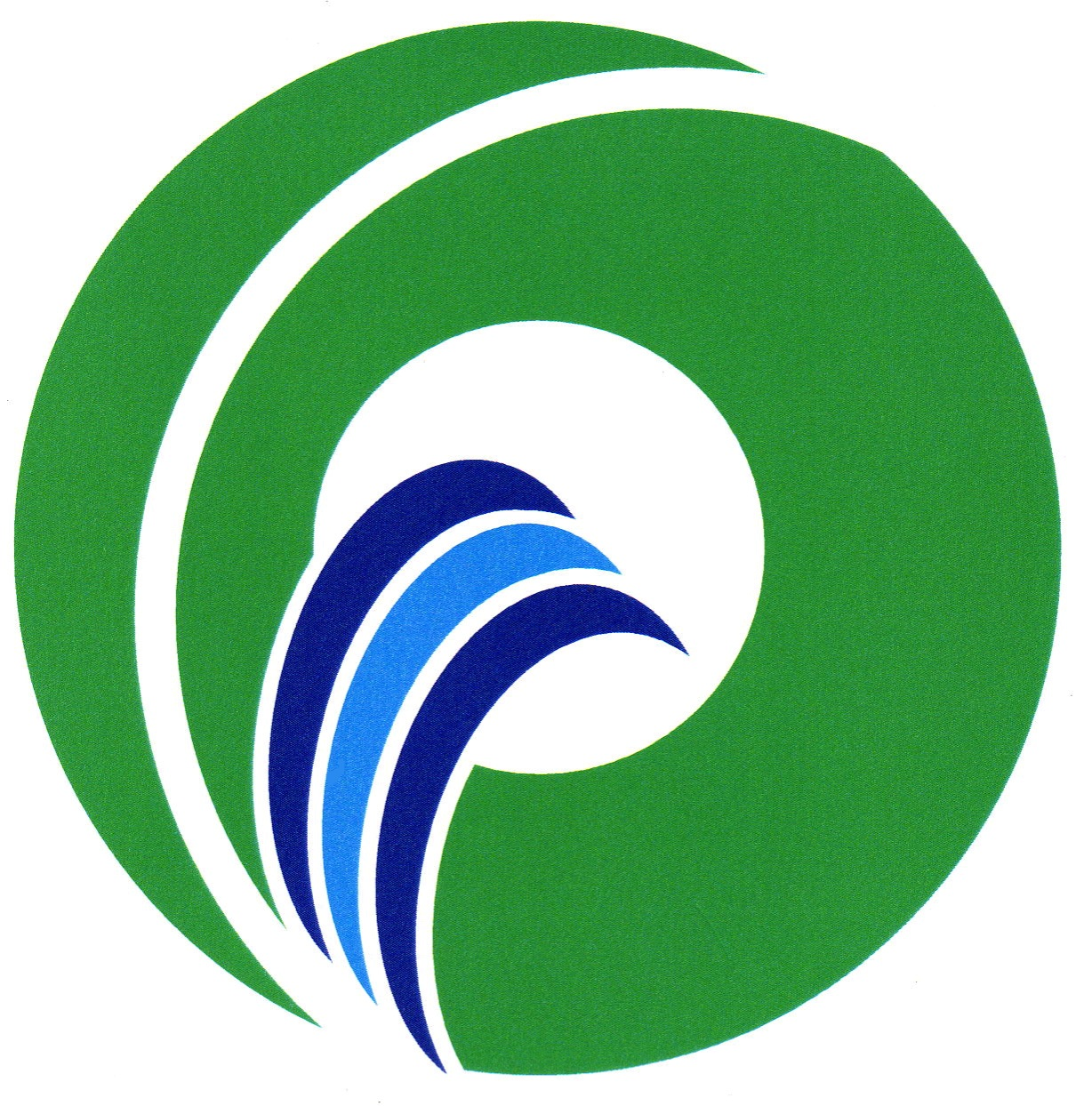 Odai Mie chapter